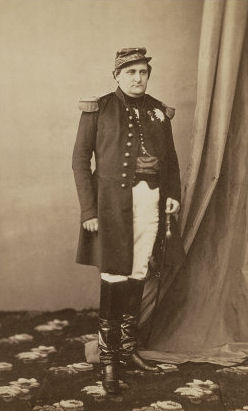 Napoléon Joseph Charles Paul Bonaparte